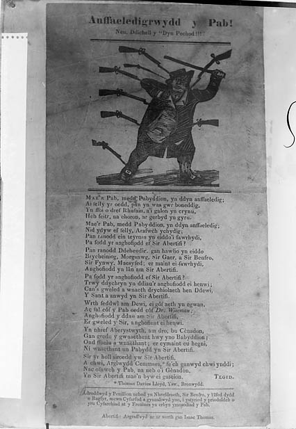 1 negative : glass, dry plate, b&w ; 16.5 x 12 cm.